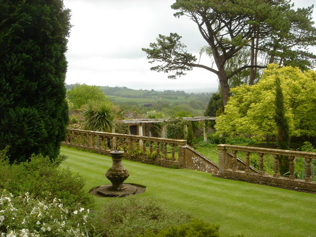 Wayford Manor Gardens Gardens of 13th century manor house